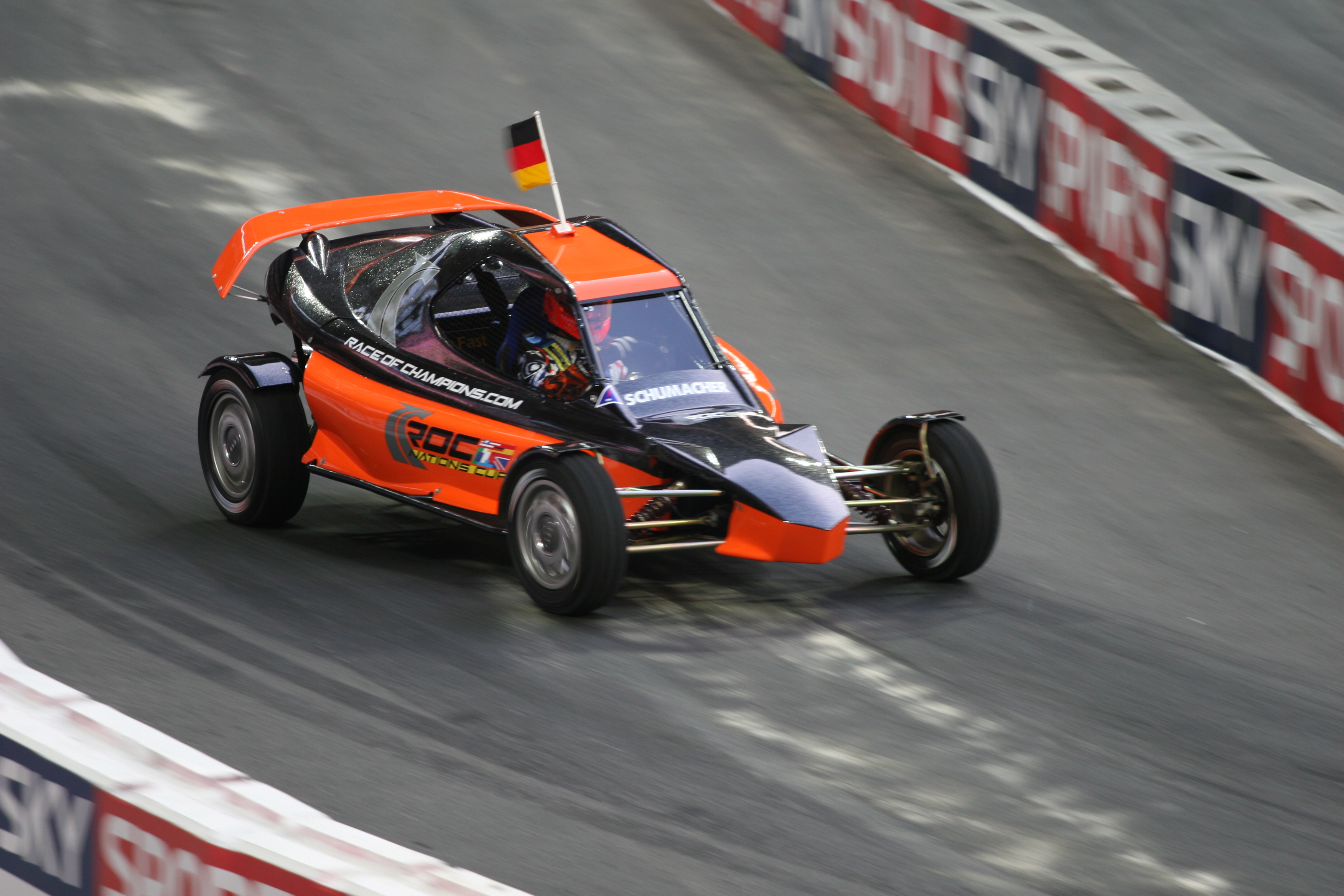 Michael Schumacher driving the ROC car at the 2007 Race of Champions at Wembley Stadium.